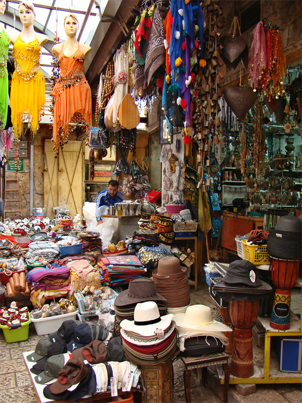 Akko, Israel.